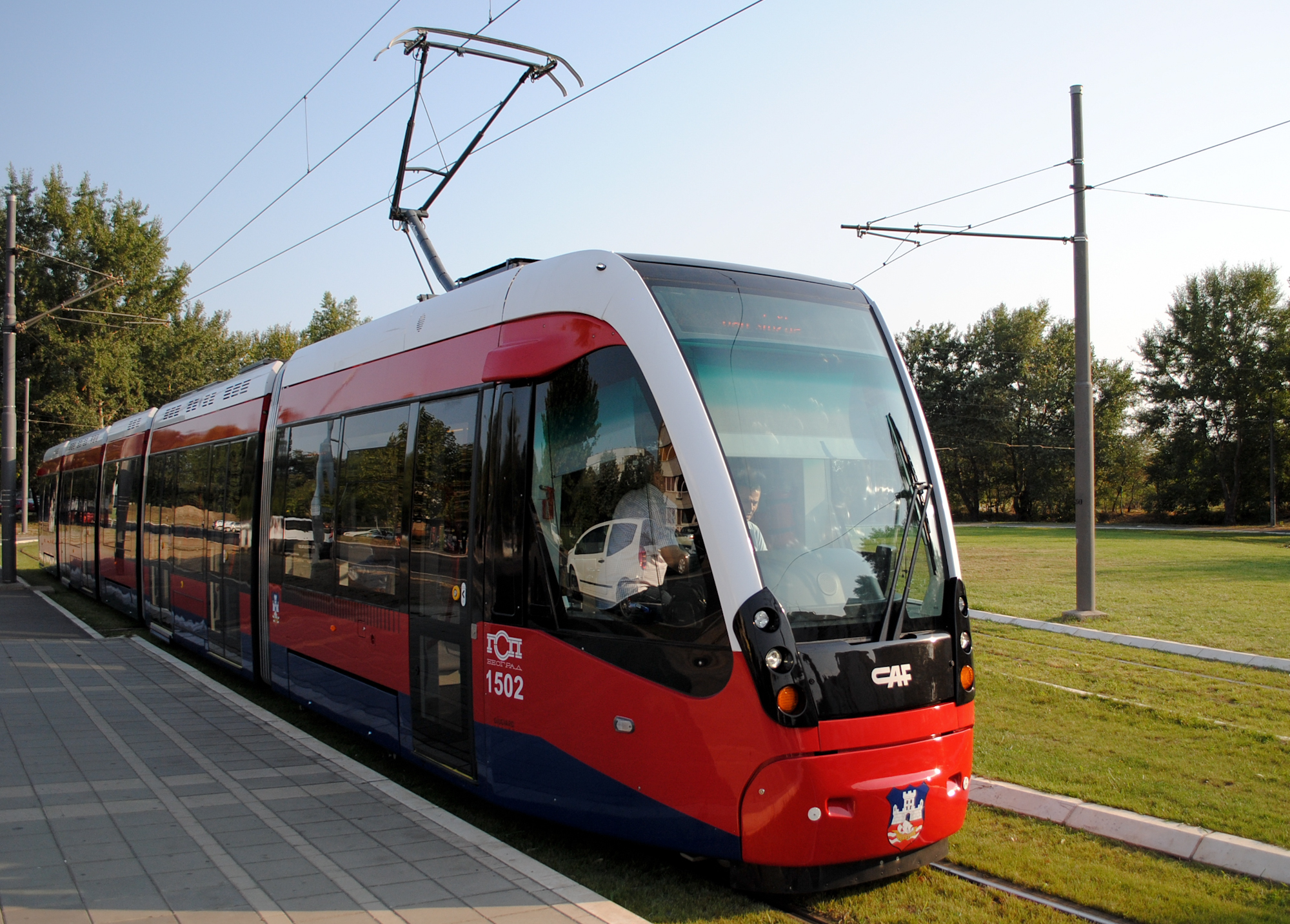 CAF tram